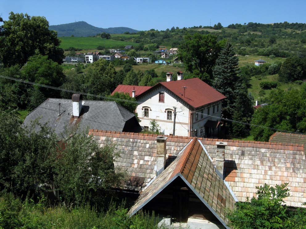 Svaty_anton5.JPG